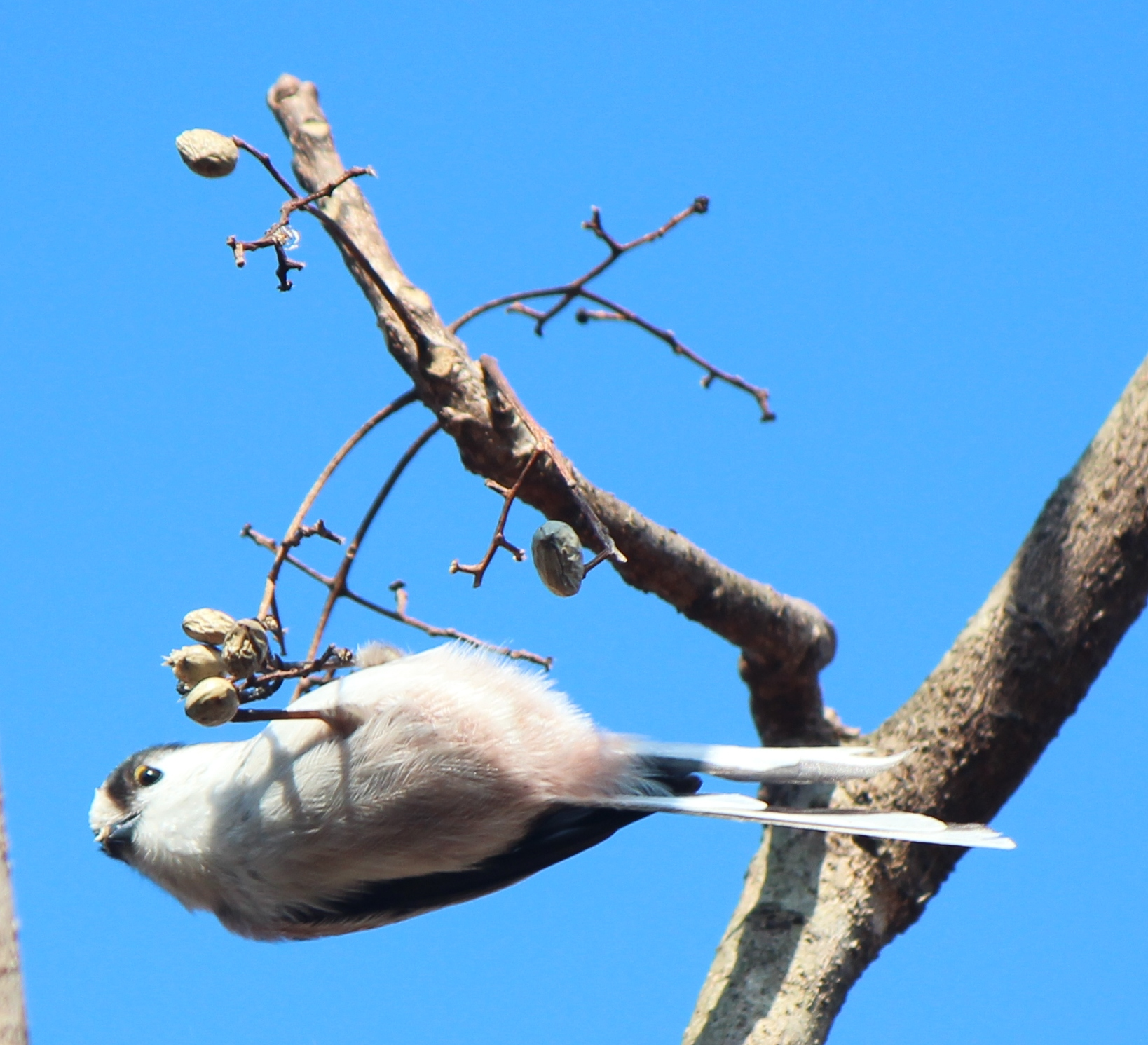 Long-tailed Tit (Aegithalos caudatus trivirgatus) eating fruit, in Japan.